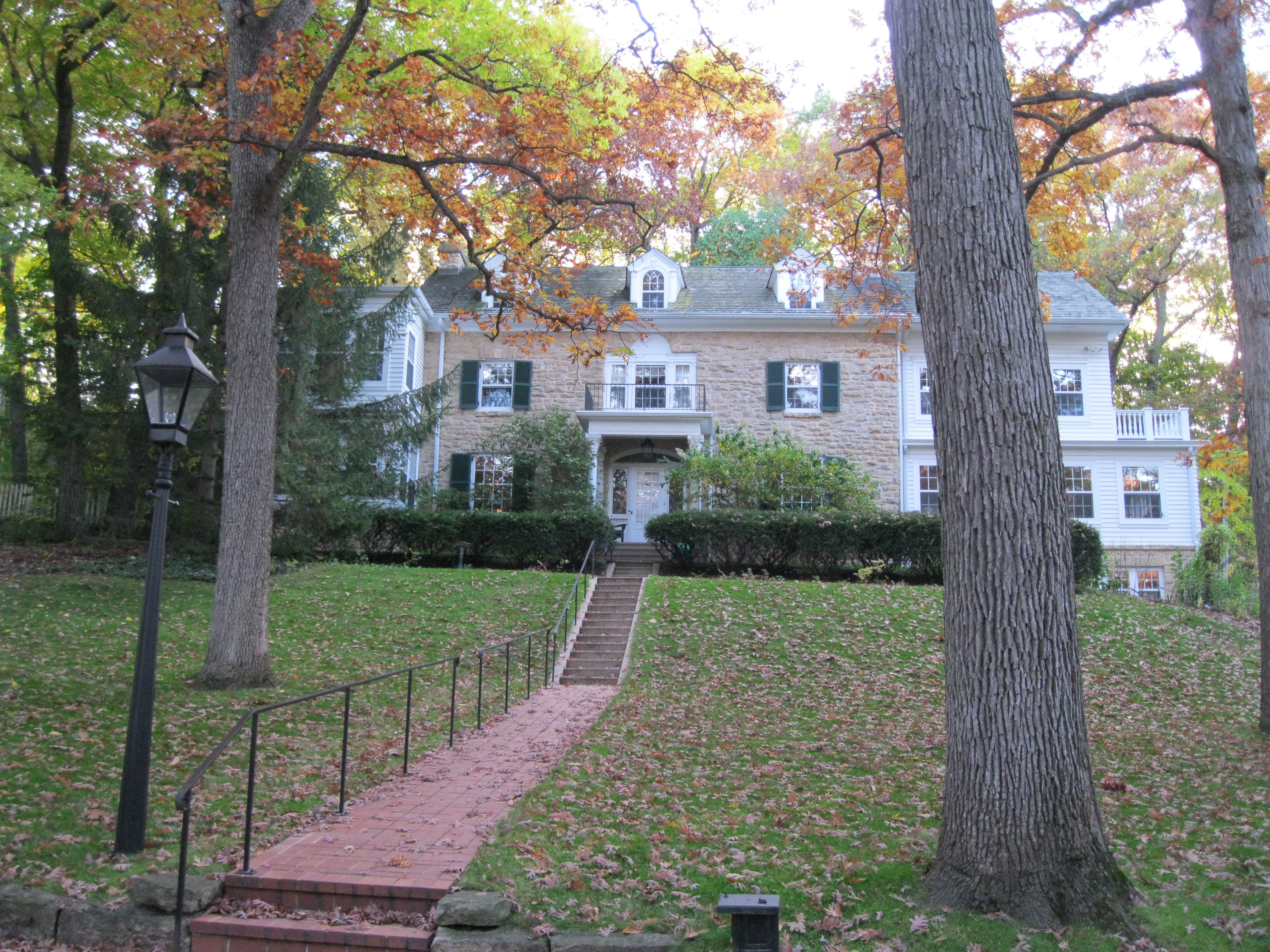 1124 Oak Way in the Shorewood Historic District in Shorewood Hills, Wisconsin.